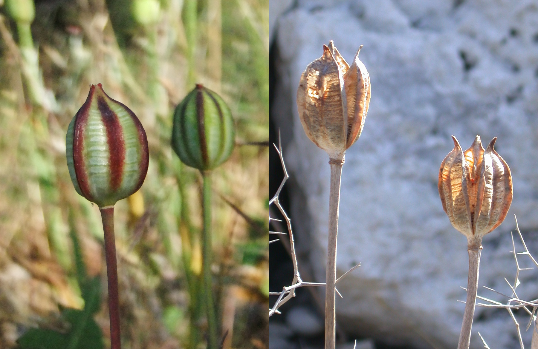 Green (left) and dry (right) capsules of Tulipa agenensis in its natural habitat. Israel.